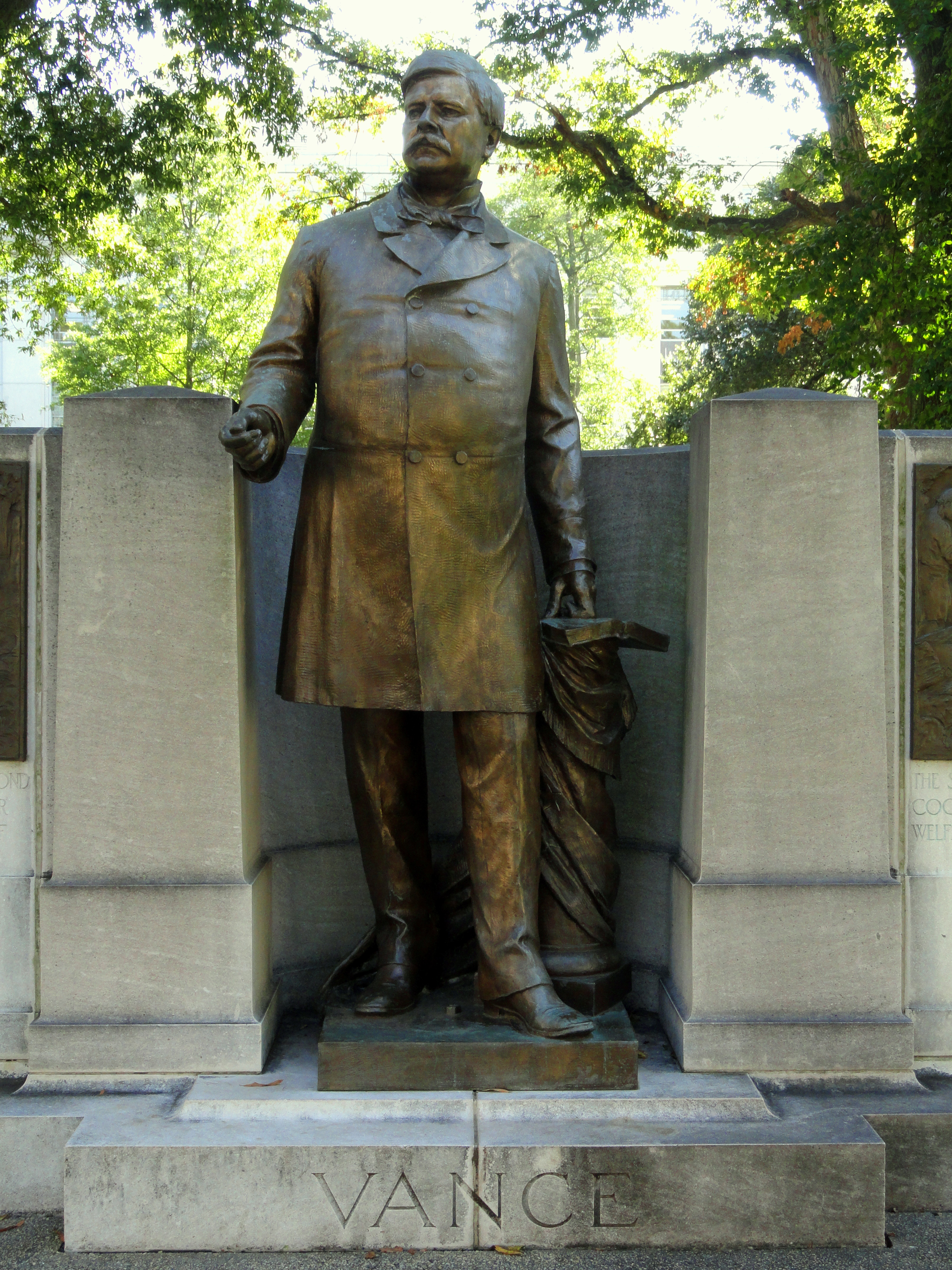 Memorial to Zebulon Baird Vance by Henry Jackson Ellicott. North Carolina State Capitol, Raleigh, North Carolina, USA. Dedicated Aug. 22, 1900.